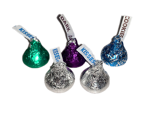 Hershey's KISSES Chocolate wrapped in aluminum foil with a paper plume that sticks out the top identifying the flavor inside. The KISSES plume identifies the traditional milk chocolate Kiss.